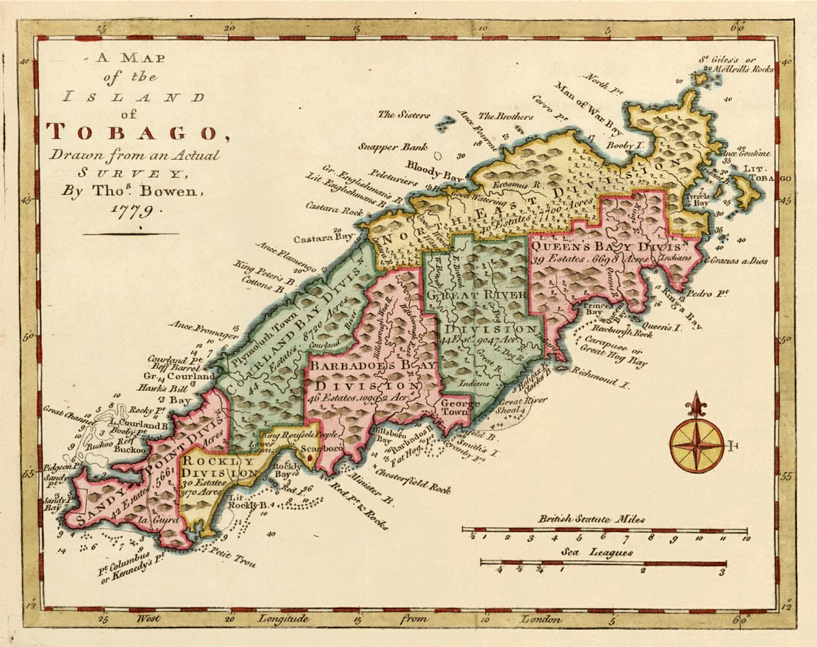 hand colored map of Tobago island, Trinidad and Tobago, Caribbean, with subdivision into seven "divisions" (later parishes with different names)